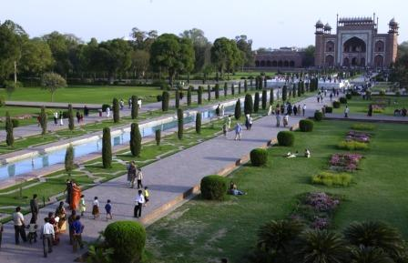 photographs courtesy Philip Greenspun